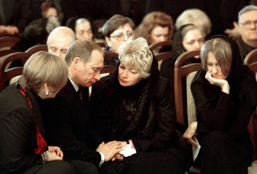 TAURIDA PALACE, ST PETERSBURG. At a civil funeral with ex-mayor of Saint Petersburg Anatoly Sobchak. With widow Lyudmila Narusova and ex-mayor's daughter Ksenia.